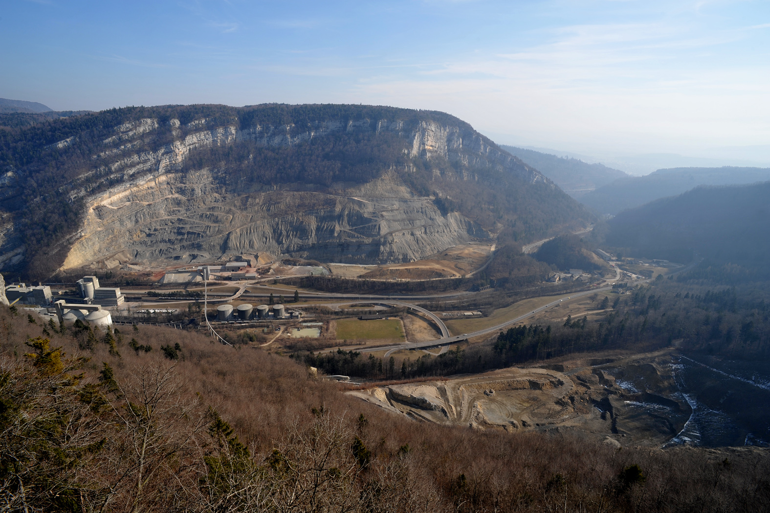 Rondchâtel, overall view from northwest; Berne, Switzerland.